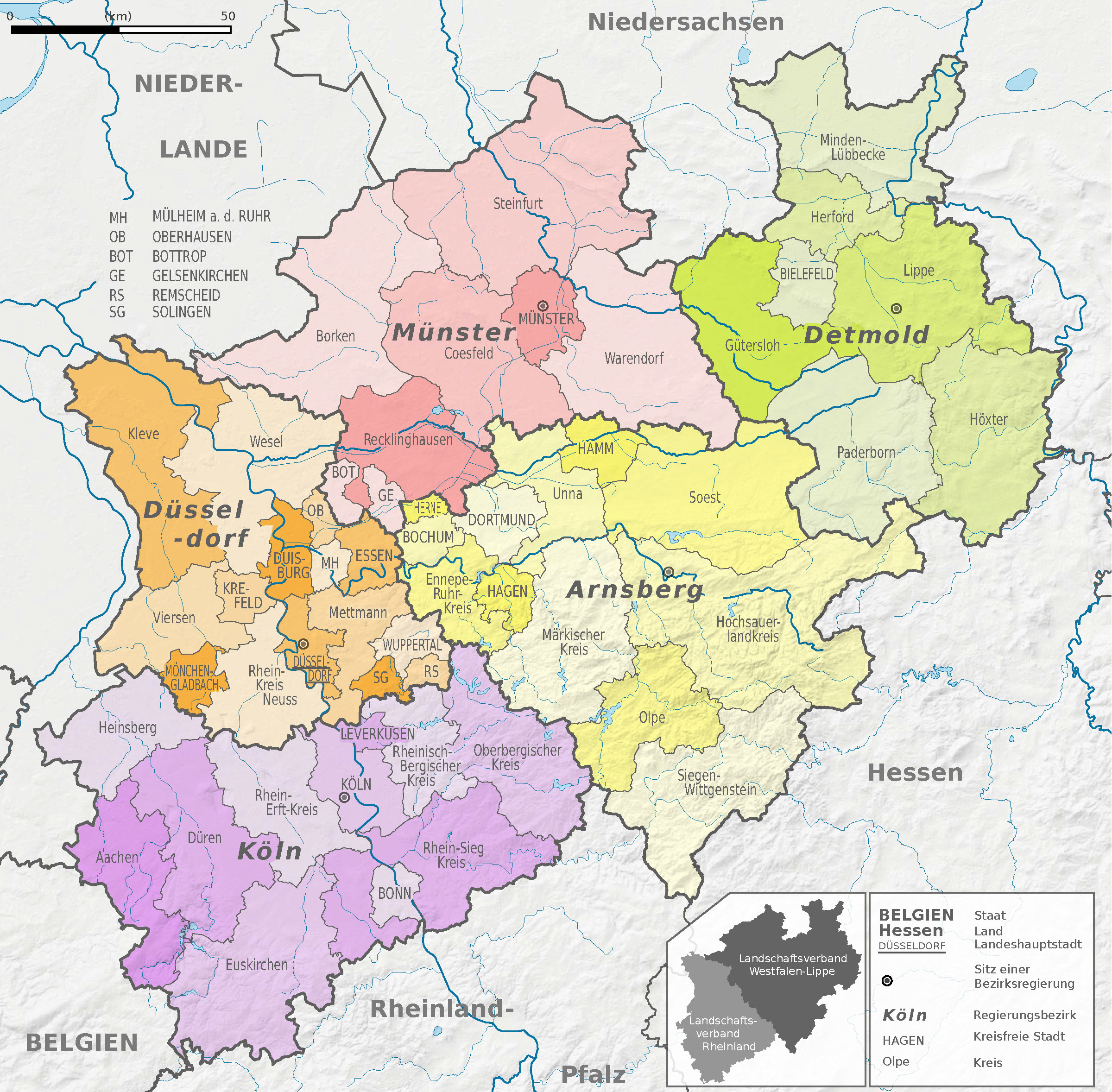 Map of administrative divisions of XY (see filename)